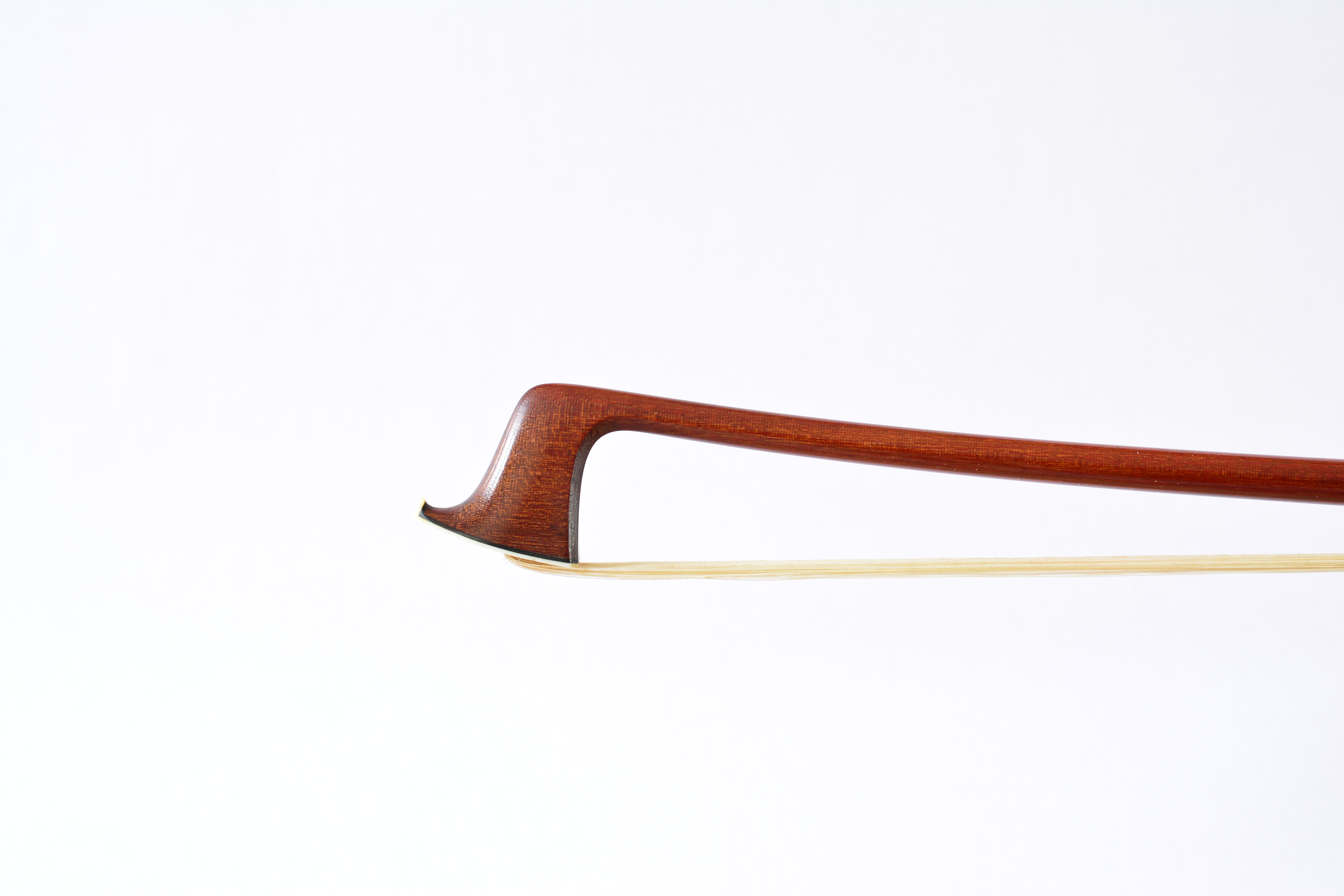 Joseph Alfred Lamy Head